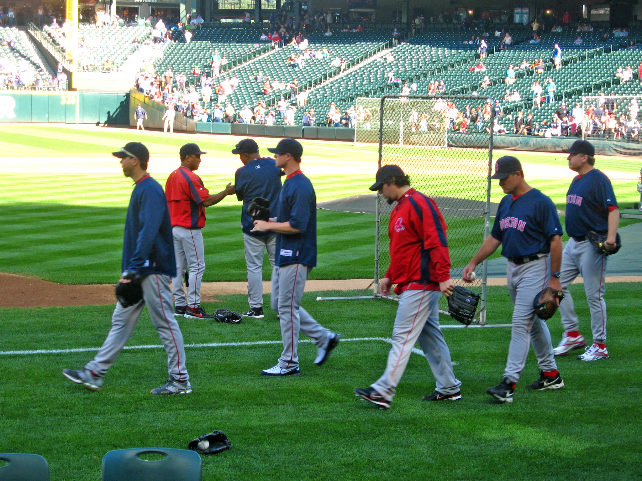 Boston Red Sox pitchers Jon Lester, Eric Gagne, and Curt Schilling among others.